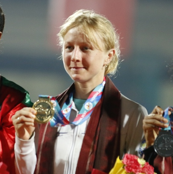 Daria Maslova, Gold Medalist during 22nd Asian Athletics Championships in Bhubaneswar.